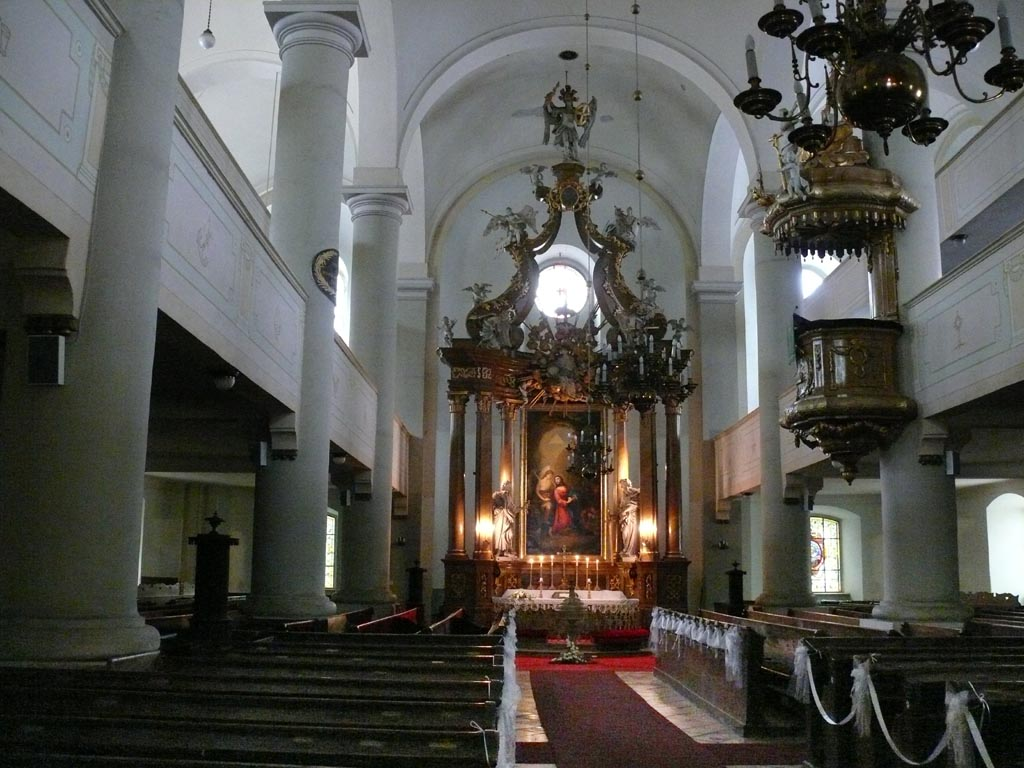 Lutheran church